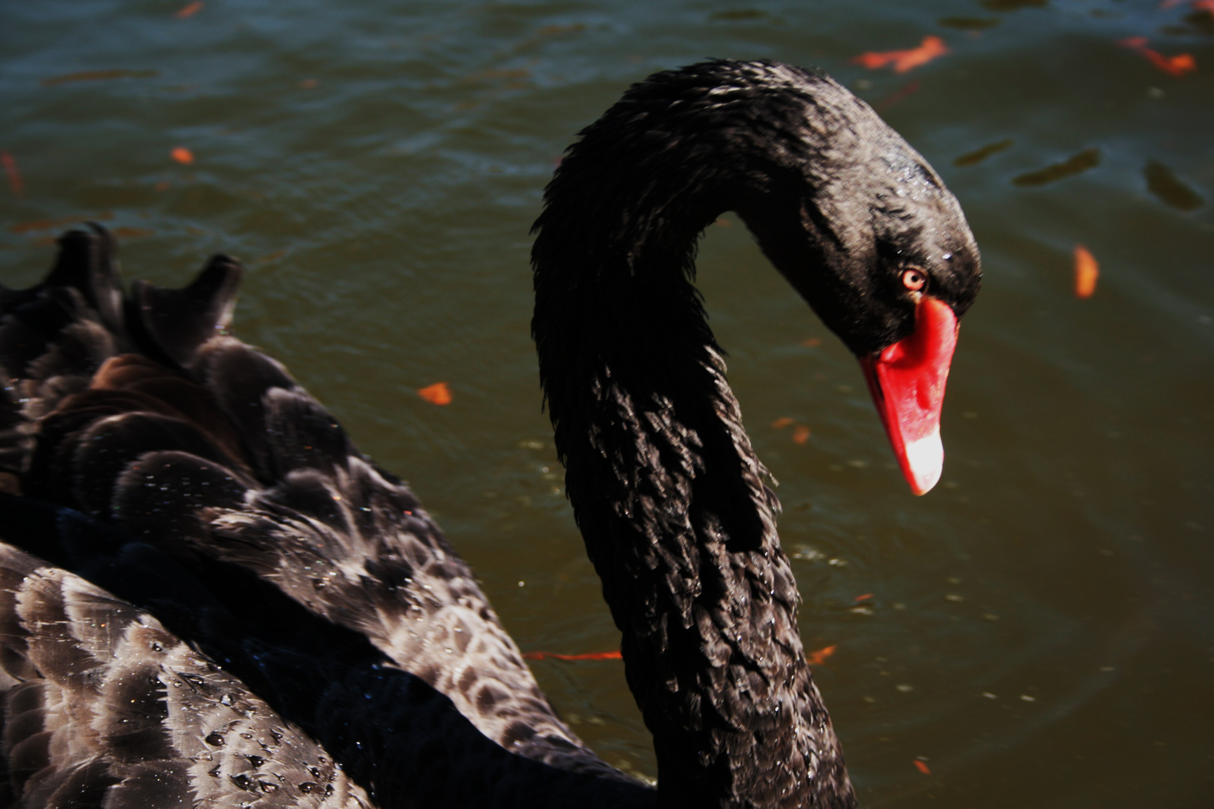 Black Swan.